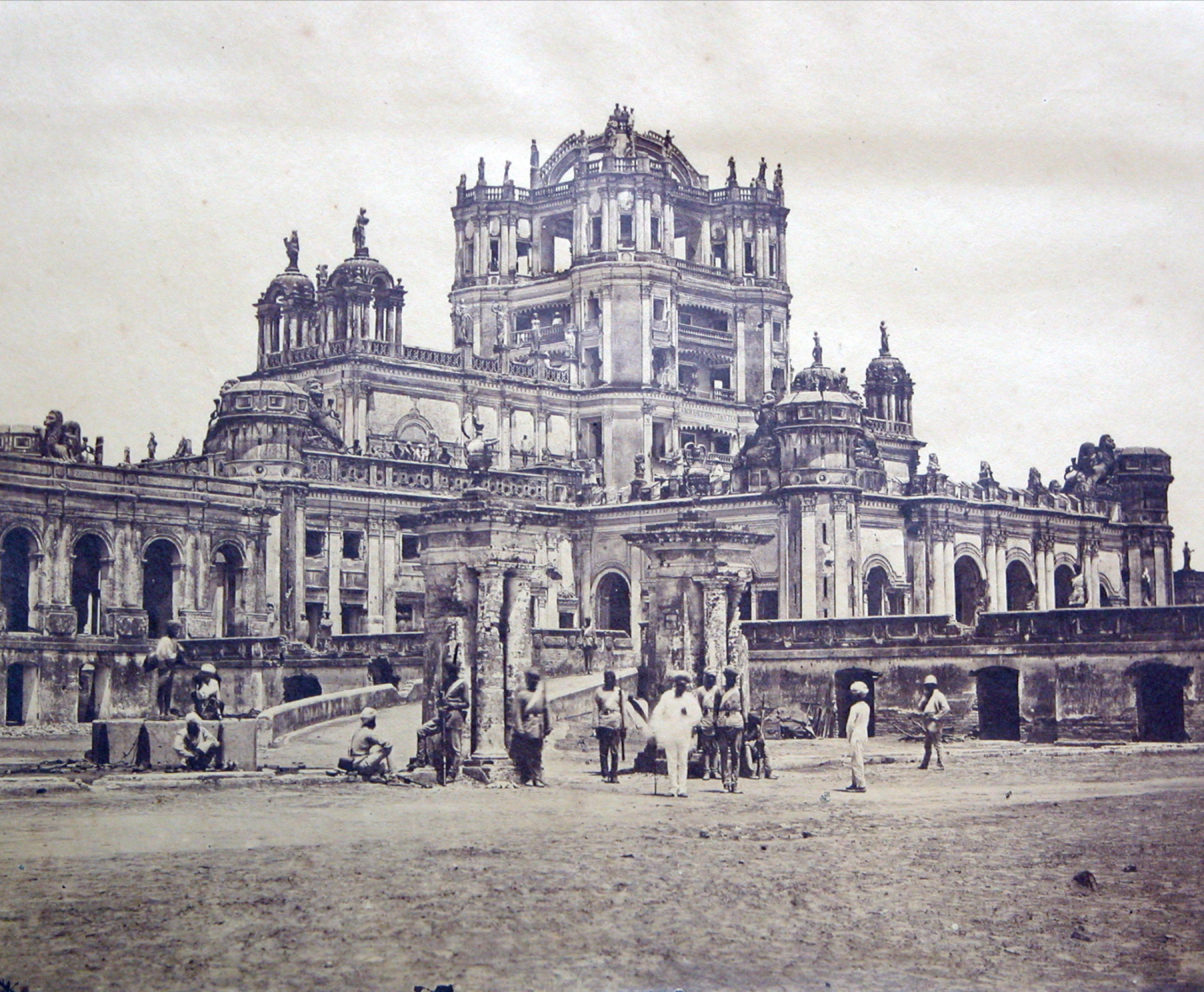 La Martiniere in Lucknow in 1858